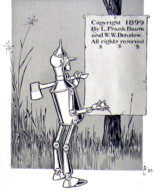 An illustration by W. W. Denslow from The Wonderful Wizard of Oz, also known as The Wizard of Oz, a 1900 children's novel by L. Frank Baum.